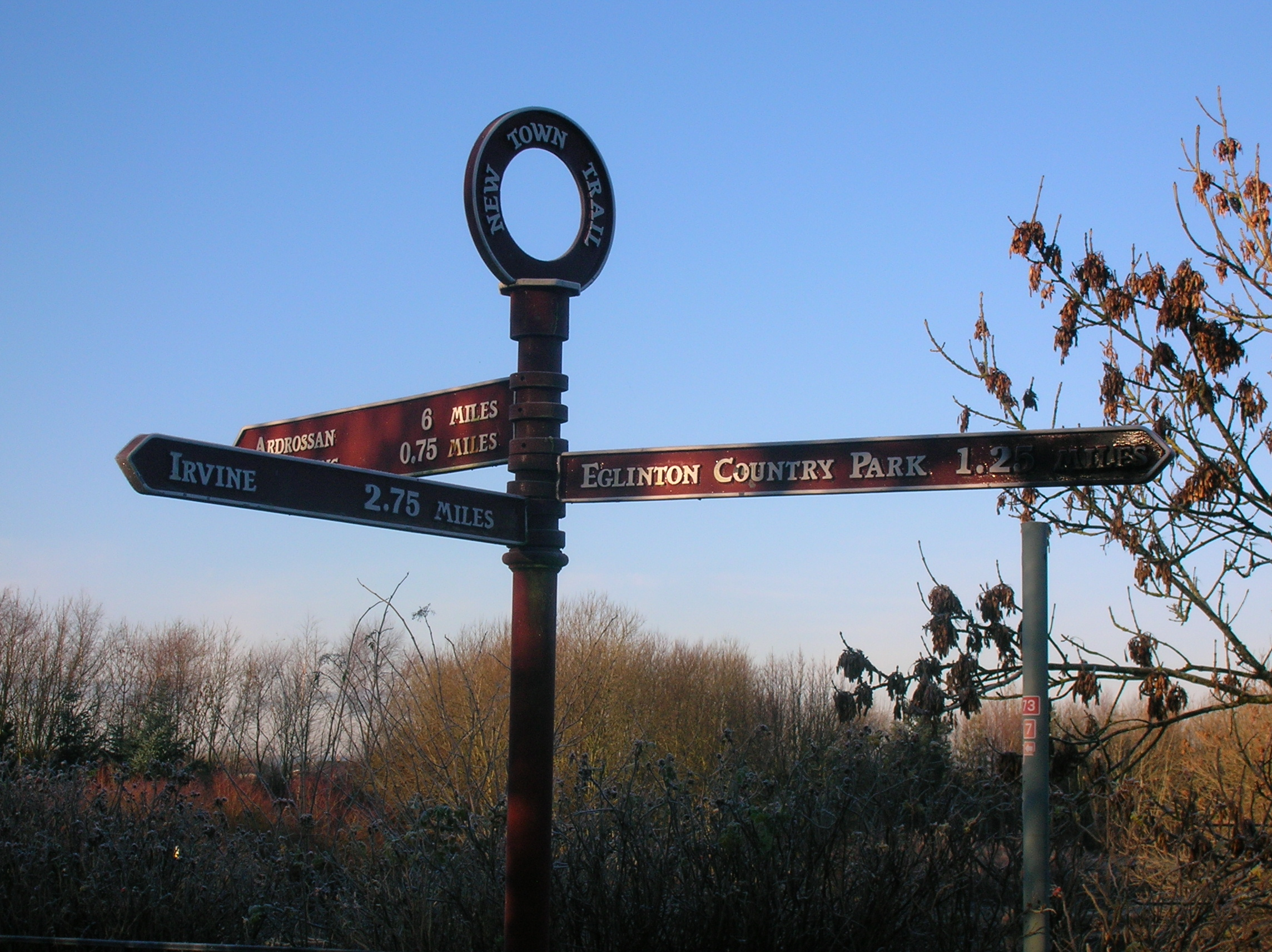 A sign on the New Town Trail in Kilwinning, Ayrshire